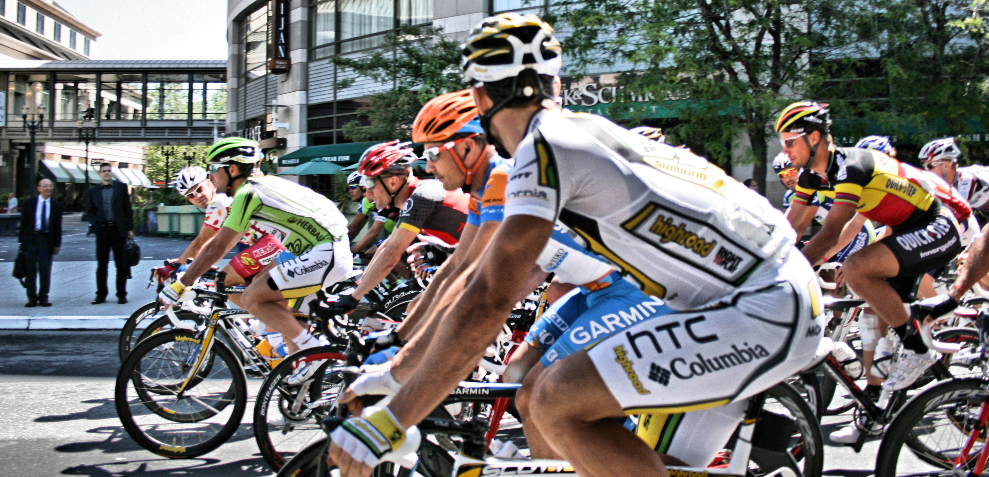 Digging up photos from May 2010 Amgen Tour of California race start in San Jose, CA.